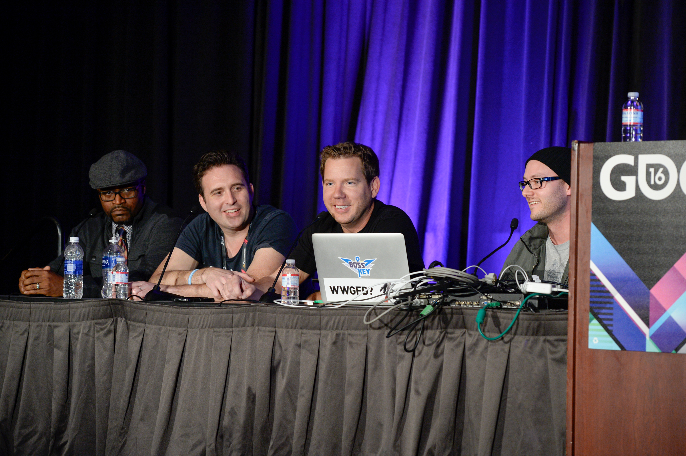 Surrounded by 800lb Gorillas! Standing Up to the Competition (presented by Boss Key Productions) Cliff Bleszinski (Boss Key Productions), Arjan Brussee (Boss Key Productions), Tramell Isaac (Boss Key Productions), Rohan Rivas (Boss Key Productions) Thursday, March 17 | 12:45pm - 1:45pm | Room 2009, West Hall